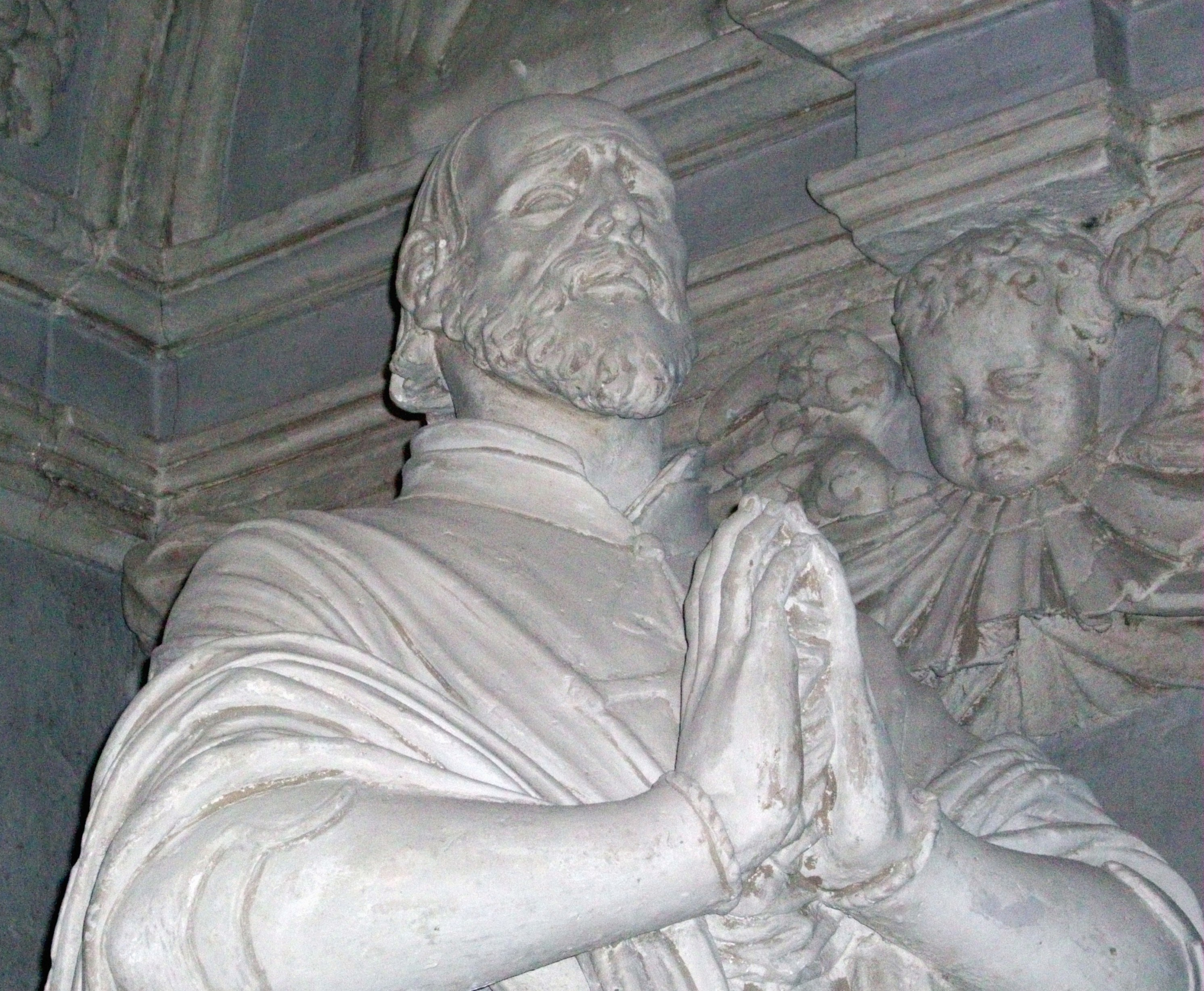 Sepulcro de Fadrique de Acuña, V conde de Buendía, en la capilla mayor de la iglesia de Ntra. Sra. de la Asunción de Dueñas, provincia dePalencia, (España).